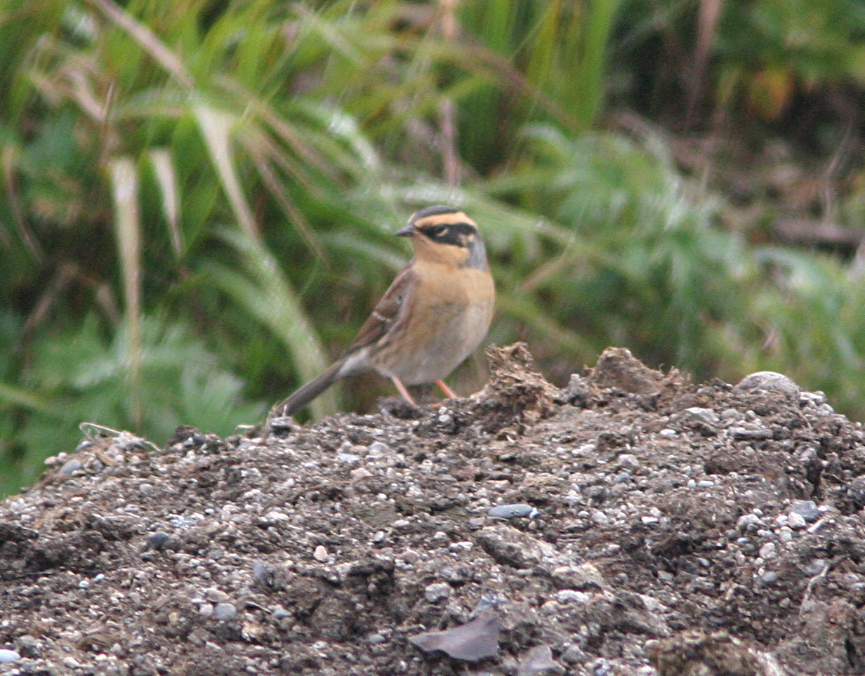 GAMBELL, AK - WINGS TOUR 8/29 - 9/8/2008 and after